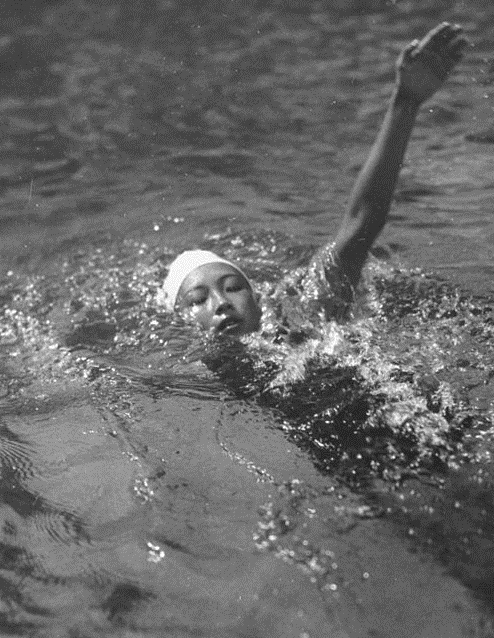 Misao Yokota of Japan in action during the 100 metres Backstroke event at the 1932 Olympic Games in Los Angeles, USA. Yokota was eliminated.